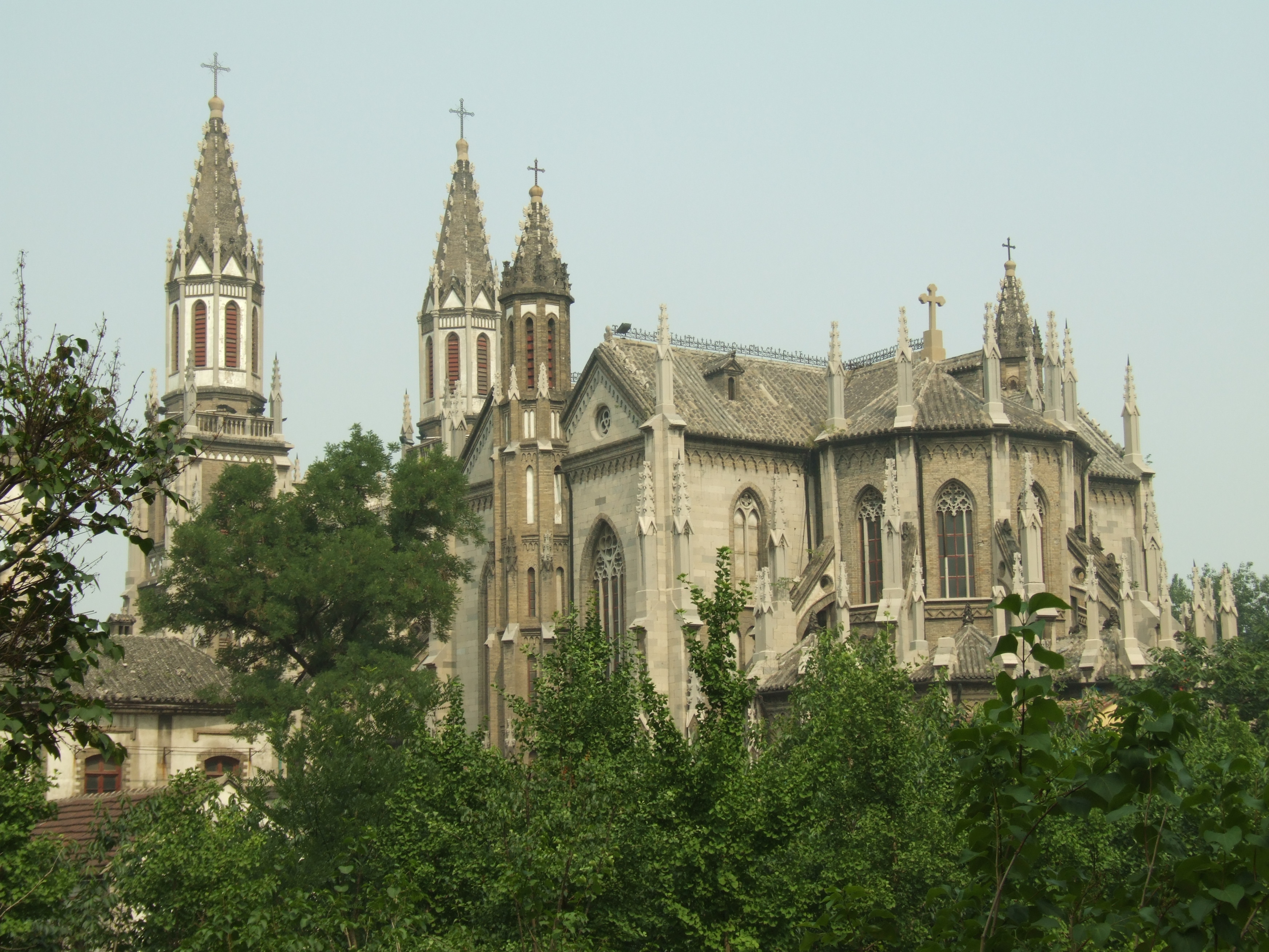 The Sacred Heart Cathedral in Jinan. The picture was taken from the back of the cathedral at the Shandong University.